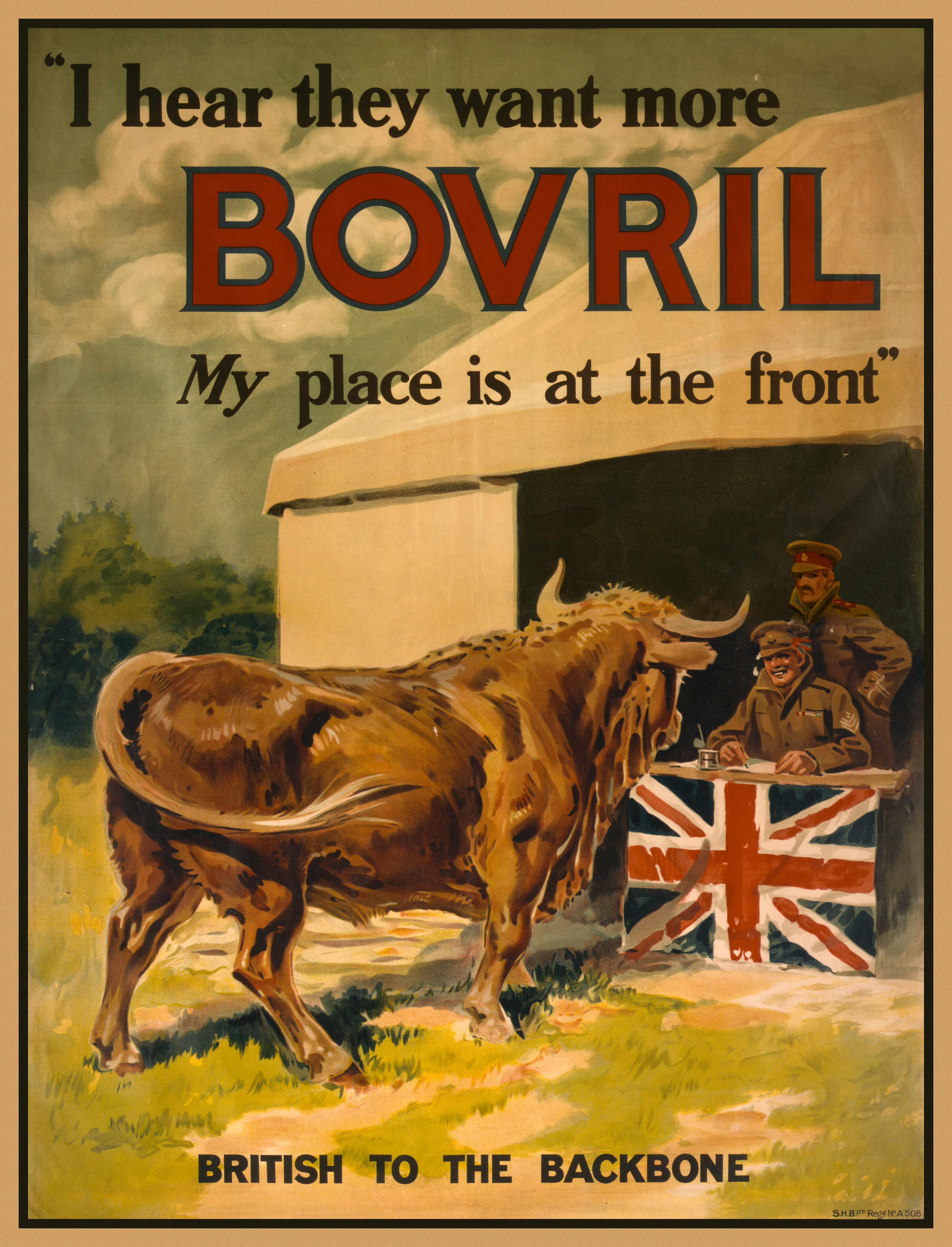 Title: "I hear they want more Bovril. My place is at the front" Abstract: Poster showing a bull approaching a recruiting station decorated with the British flag. Bovril is a brand name for beef extract. Physical description: 1 print (poster) : lithograph, color ; 198 x 152 cm. Notes: Title from item.; Regd. No. A 508.; S.H.B. Ltd.; Caption: British to the backbone.